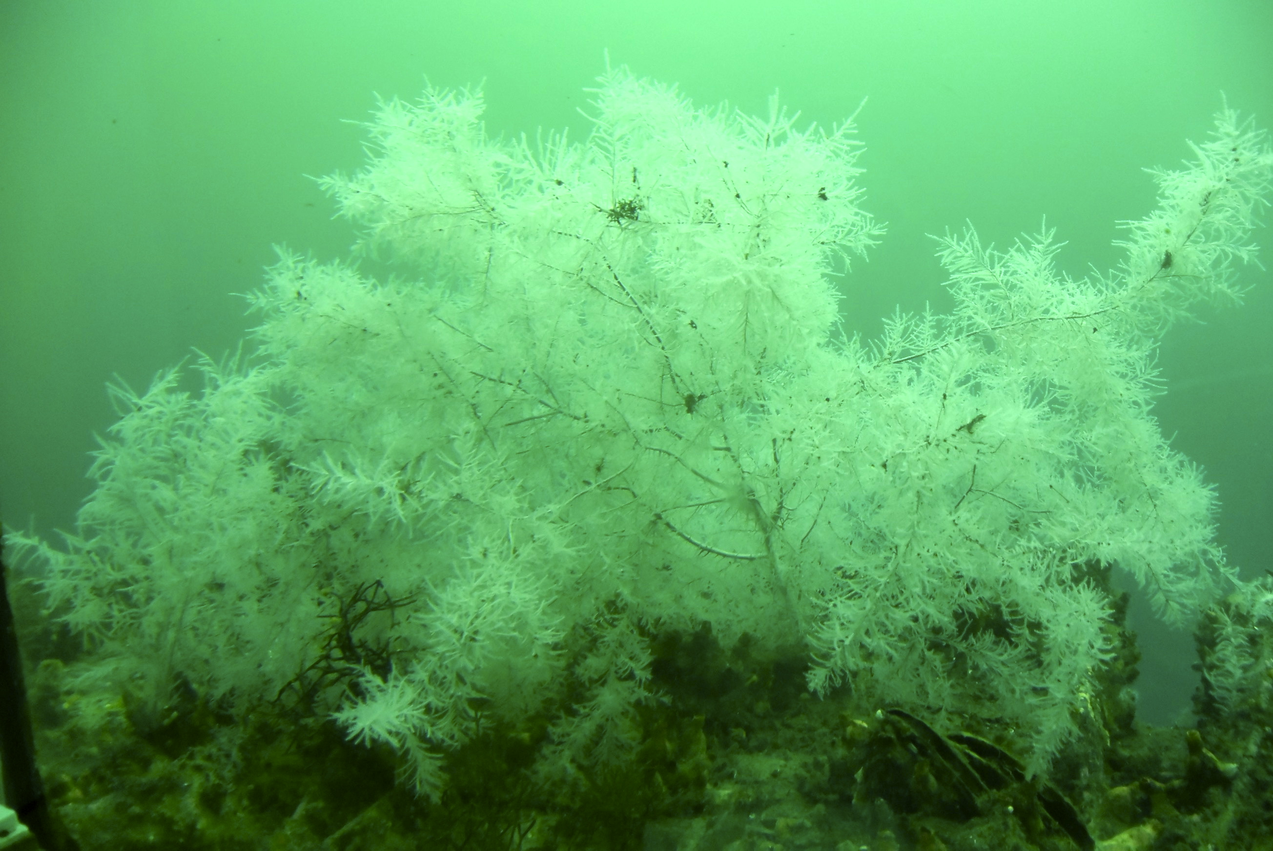 This photograph of Black Coral was taken in Milford Sound New Zealand in 2015